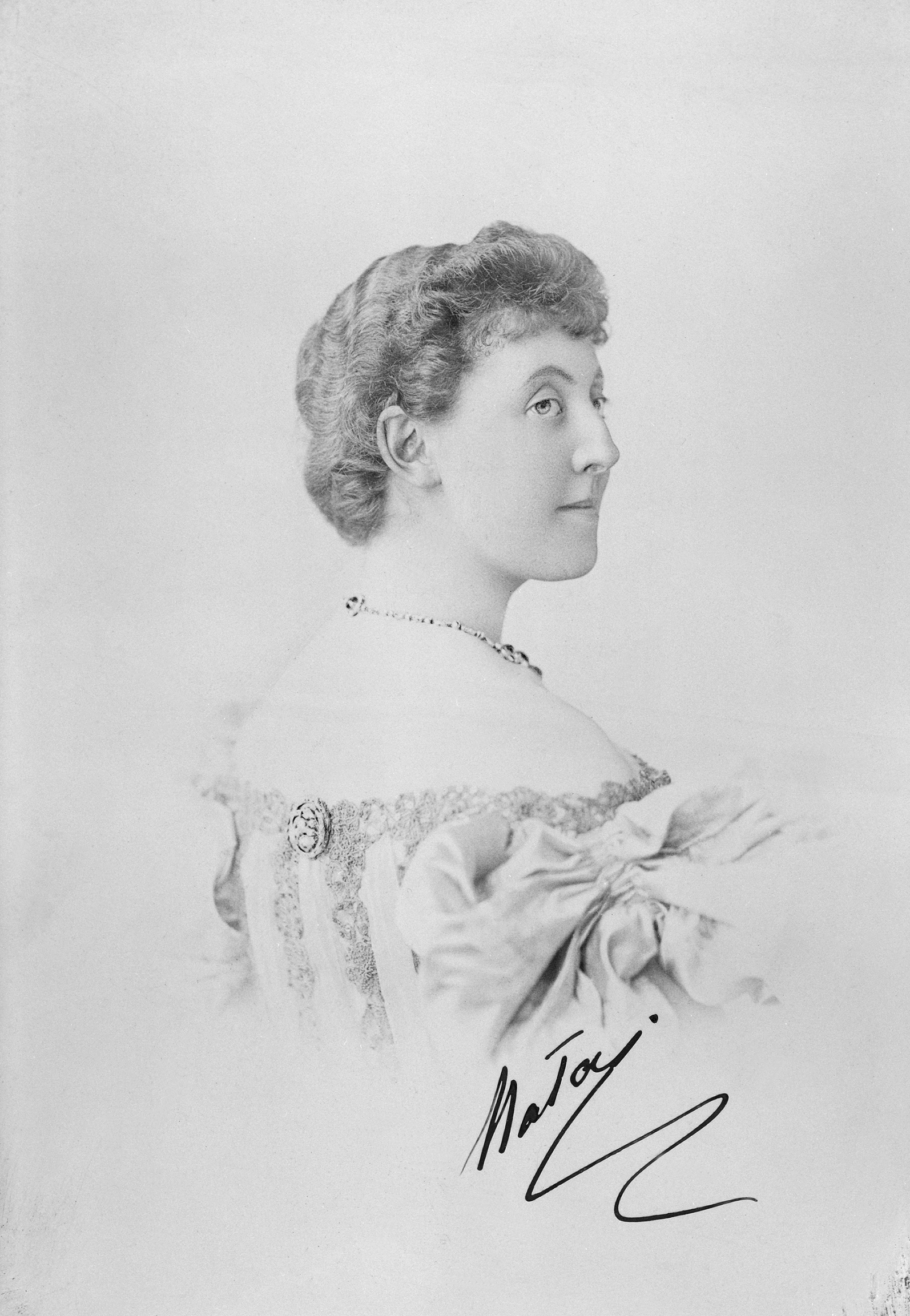 Photograph of Anastasia Mannerheim née Arapova (1872–1936).